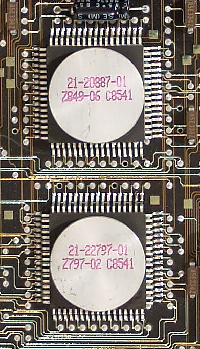 CPU MicroVAX 78032 (top), FPU 78132 (botton), DEC, 1985